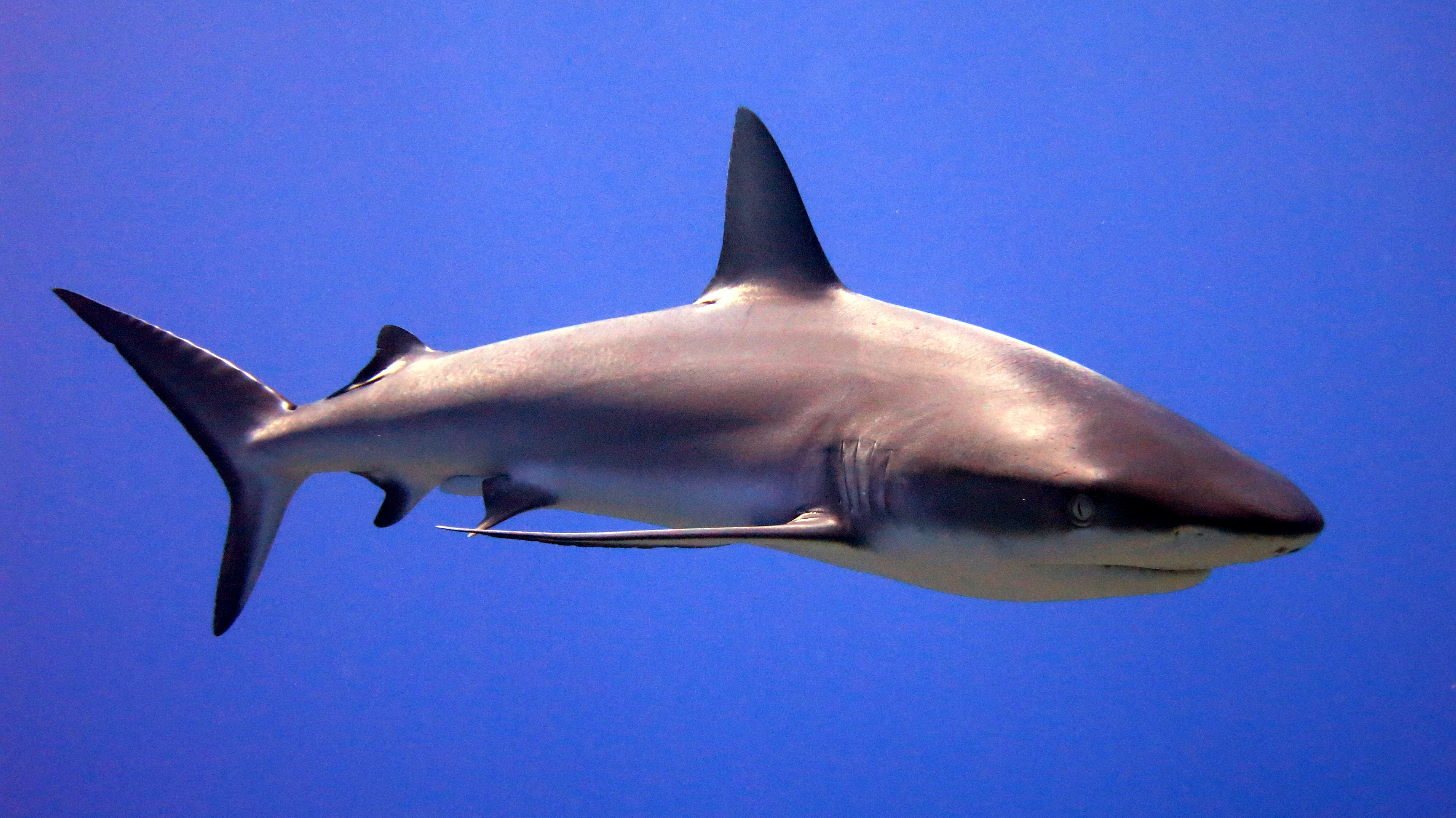 Grey reef shark (Carcharhinus amblyrhynchos) Image ID: corl0207, NOAA's Coral Kingdom Collection Location: Pacific Remote Islands, Kingman Reef Photo Date: 2015 Photographer: Kevin Lino NOAA/NMFS/PIFSC/ESD